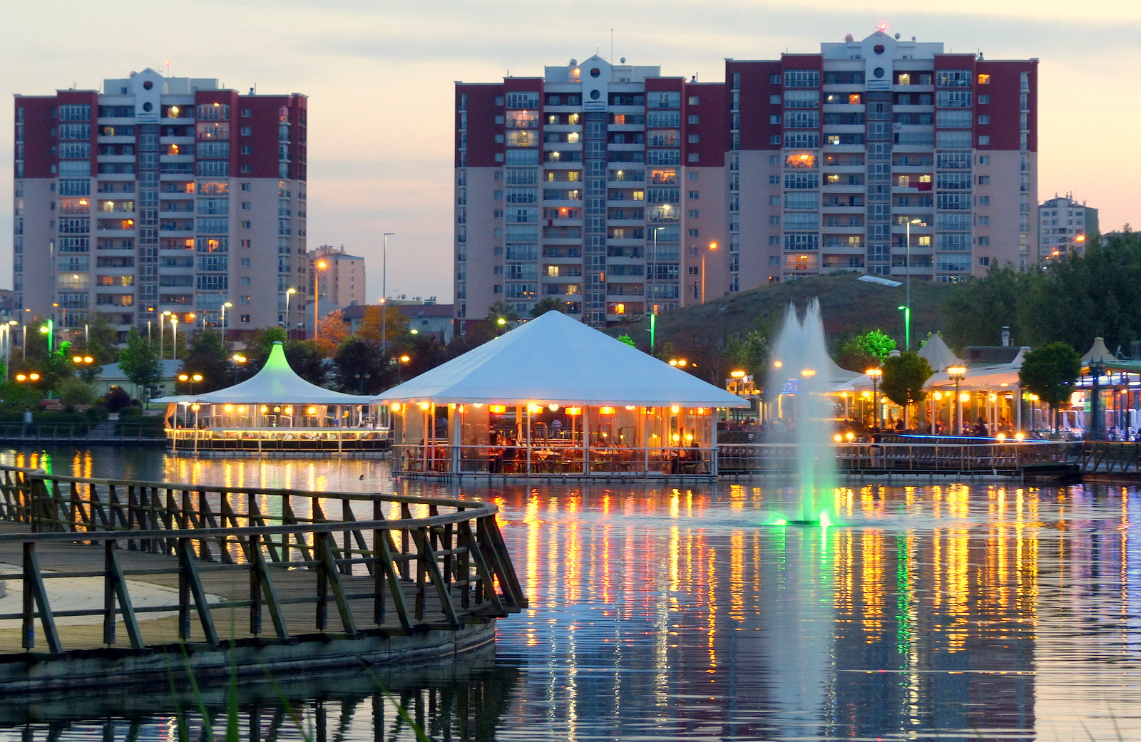 Ankara